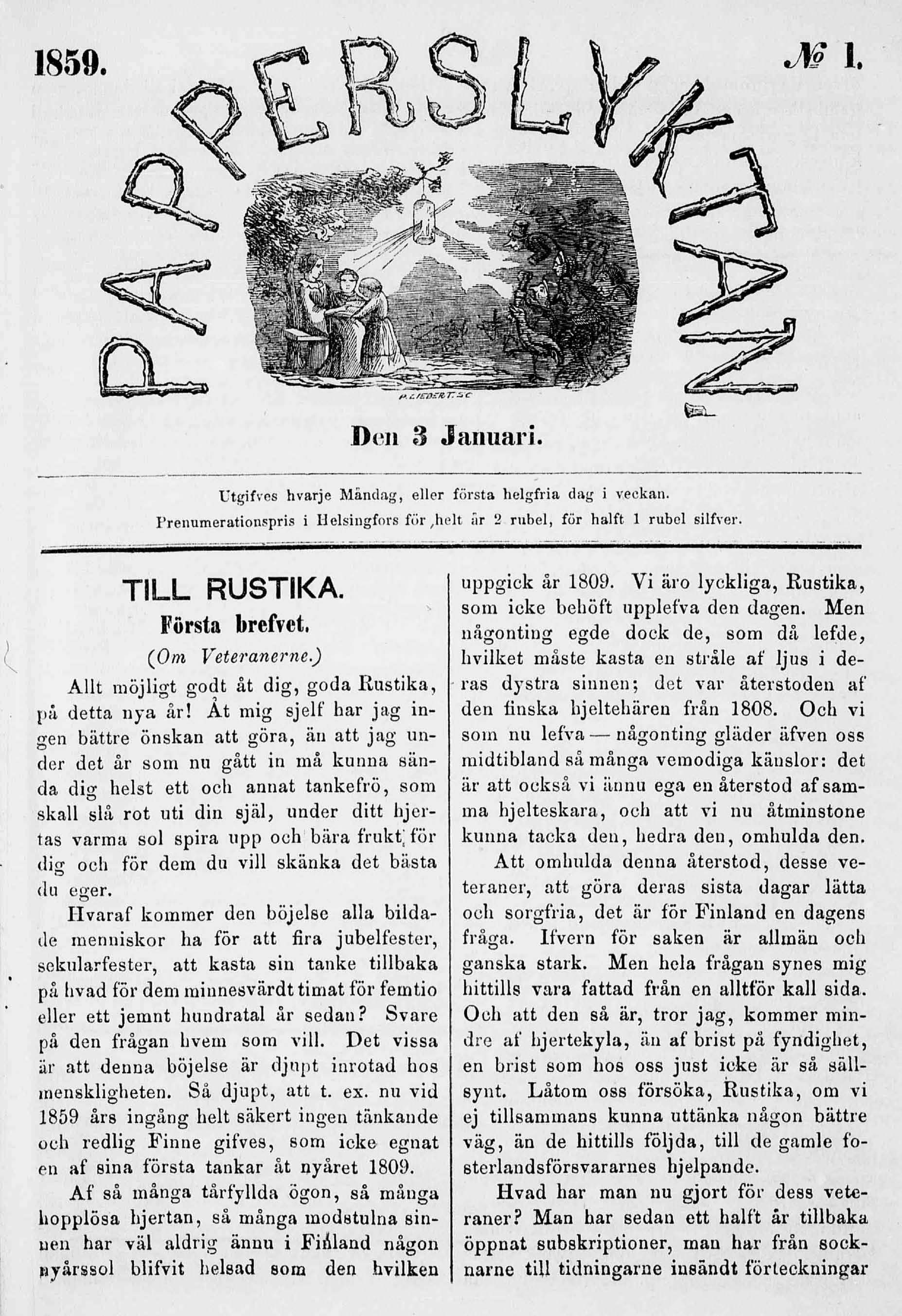 This is the first number of Papperslyktan after a number of sample 1858.